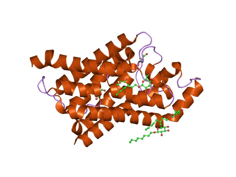 Cartoon representation of the molecular structure of protein registered with 1fx8 code.